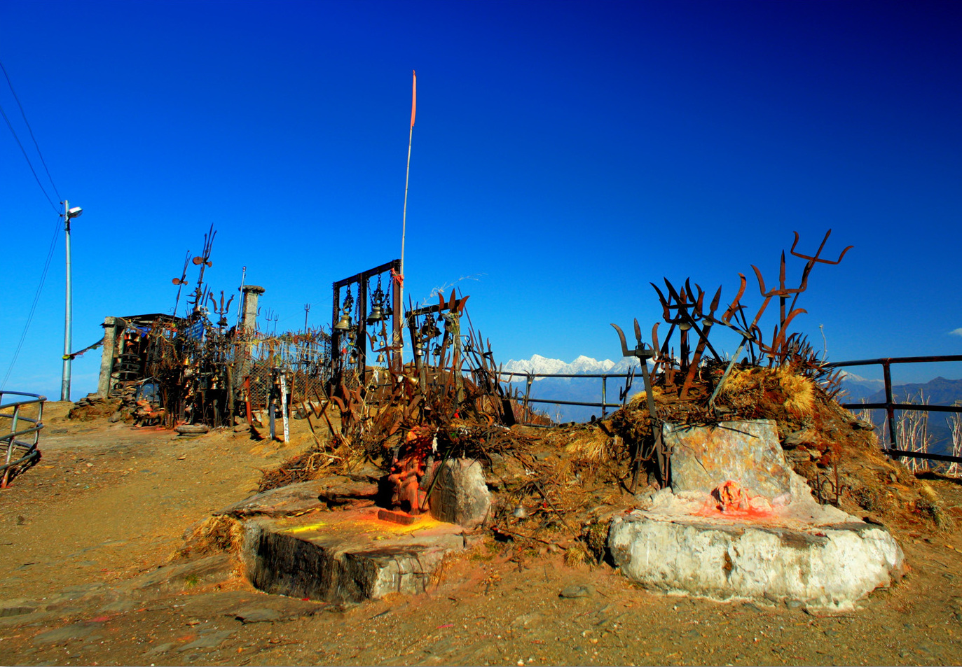 Kalinchowk is a little known and rarely visited tourist destination situated in Dolakha, Nepal. This is at the altitude (3790m) which is the highest around the vicinity. From this place one can get a wonderful panoramic view of Gauri Shanker mountain range. Even the lights of Kathmandu valley can be seen from this place at night.